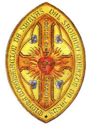 Emblem of Congregation of Servants of Holy Hearth of Jesus (Congregación de las Siervas del Sagrado Corazón de Jesús), from a devotional print, 1900.